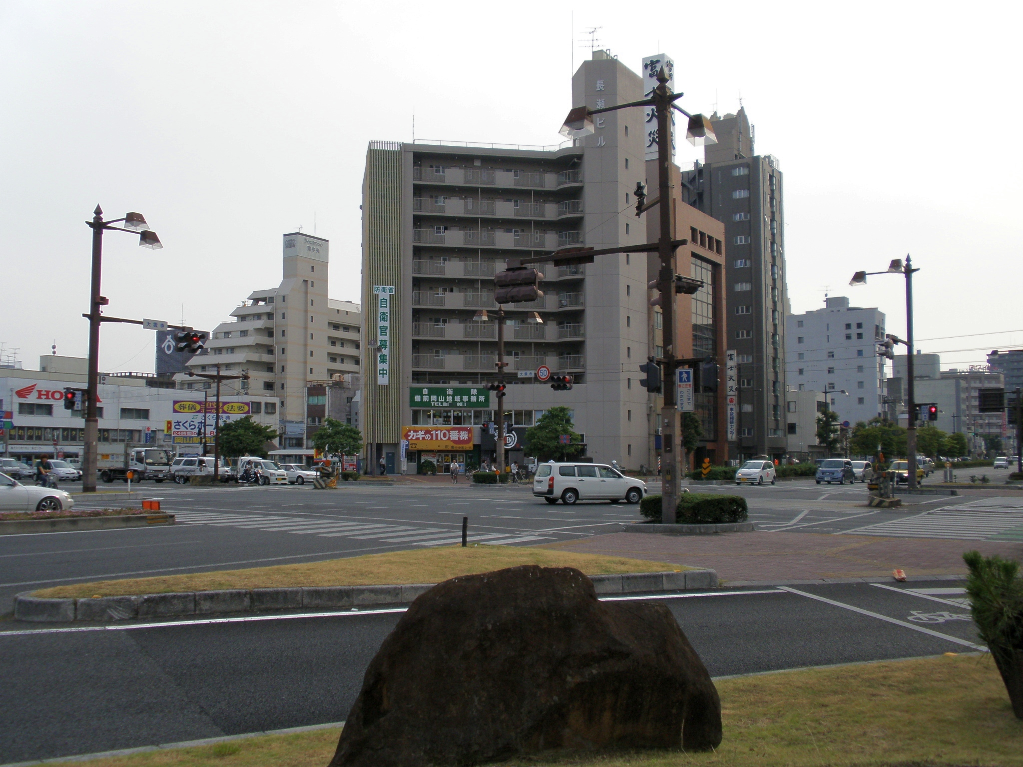 Daiunji Crossing, Kita-ku, Okayama.